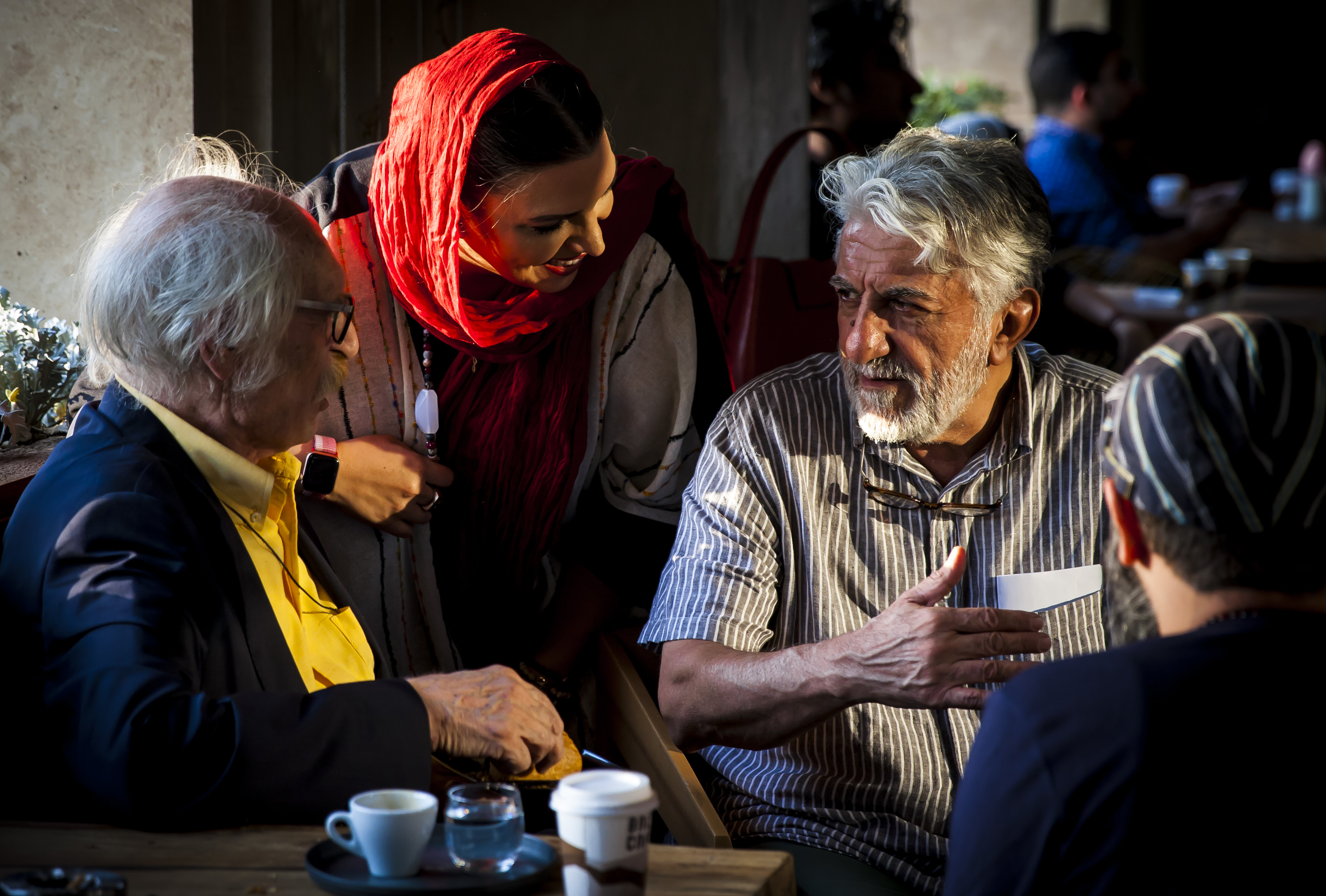 iGhe3, iGhese city - 2019